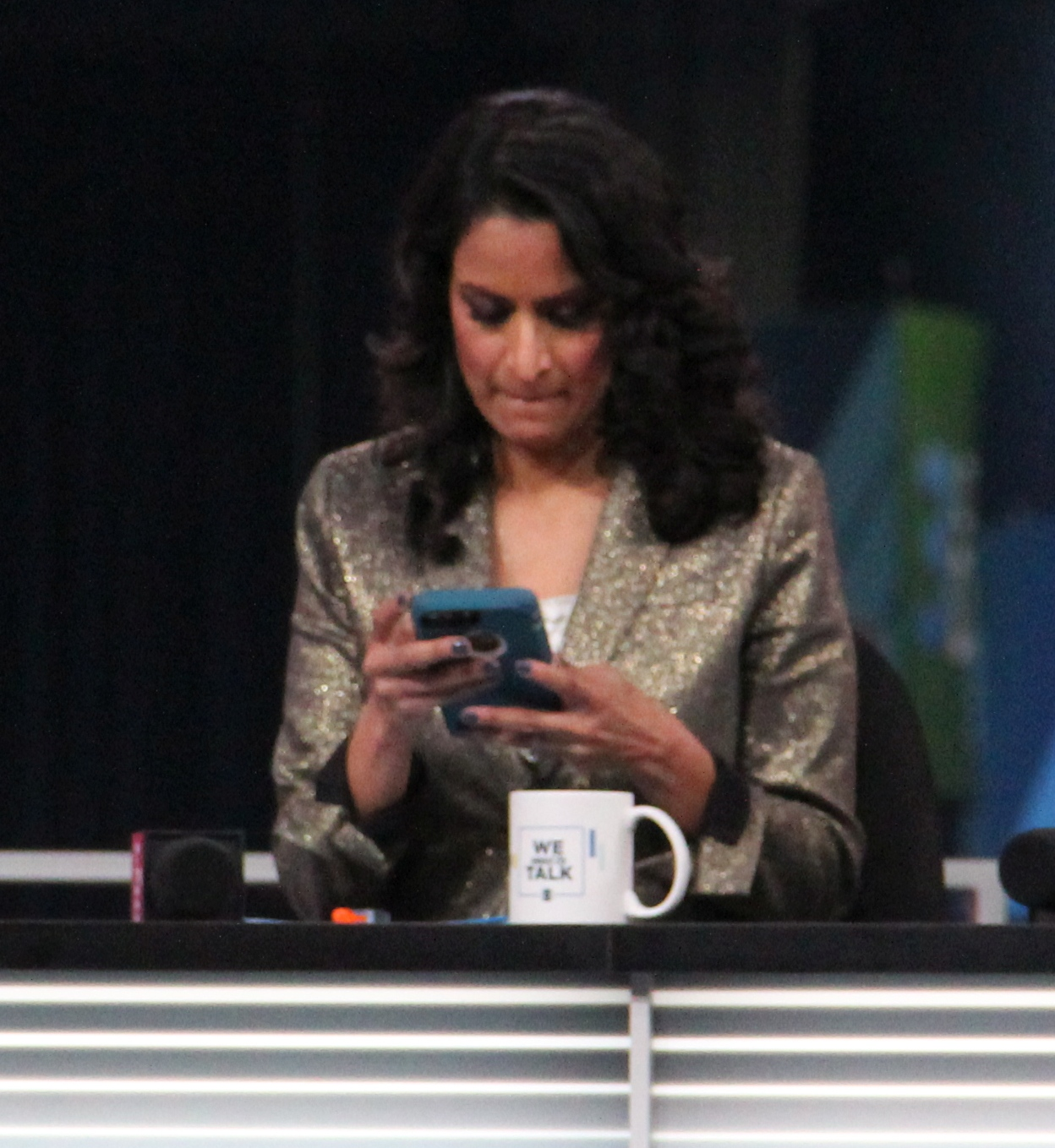 Aditi Kinkhabwala at the Super Bowl Experience at Super Bowl LIII